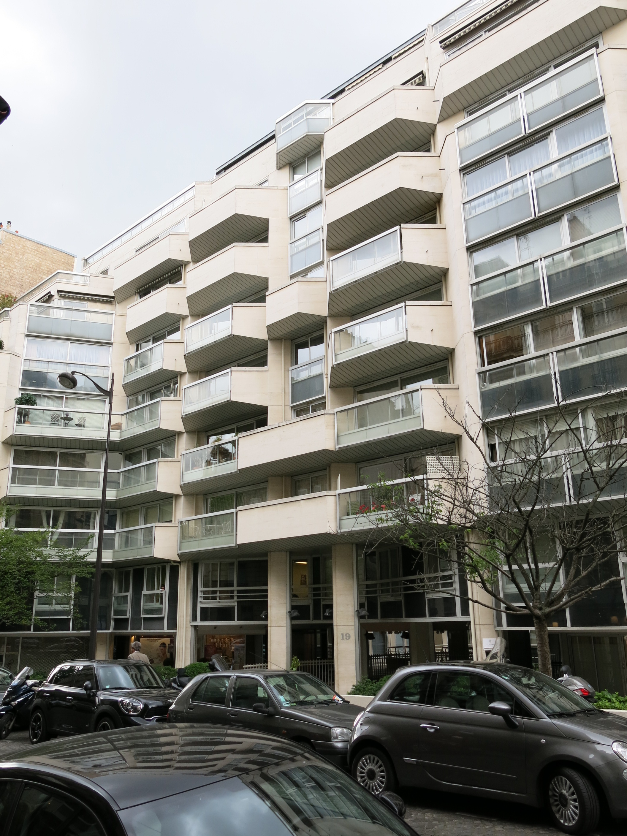 Building 19 rue de Chaillot, Paris 16th arrond. (France). This photo is free of rights according freedom of panorama (see NoFoP-France ), because it has not a definite artistic character. See : COM:CRT/France#Freedom of panorama.